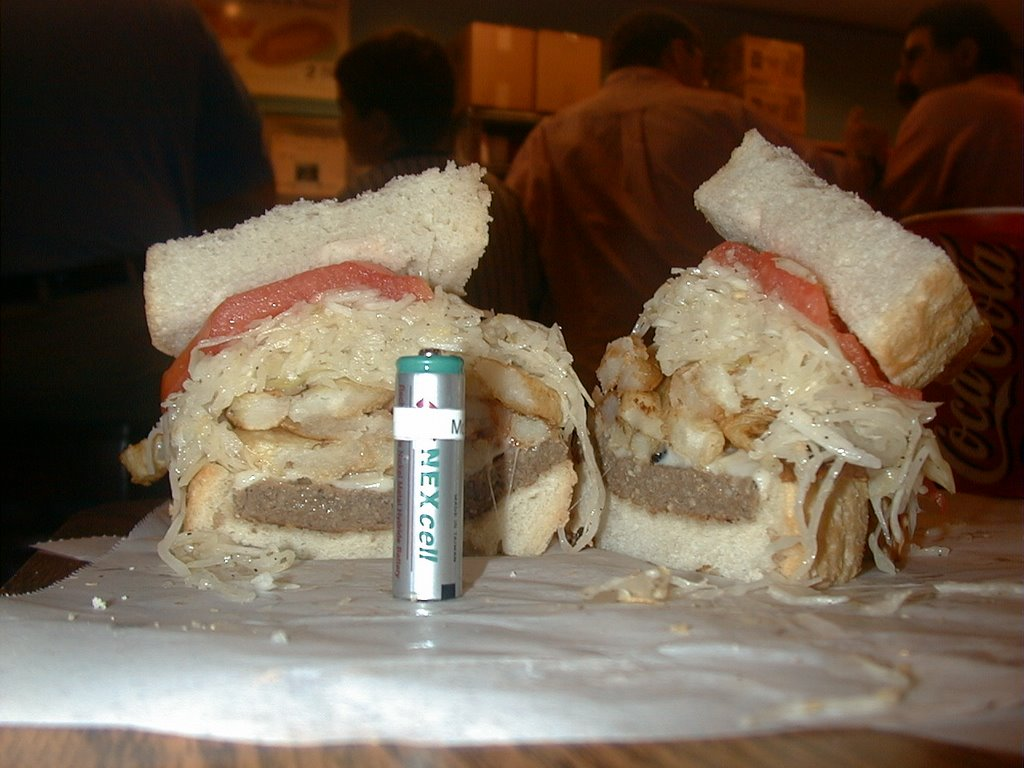 This is a picture of a Primanti Bros sandwich that I took myself when visiting them in August of 2001. I'm not retaining any rights to this picture; it's a picture of a sandwich. What the heck do I need to keep a copyright on that for? :) The AA battery is there as a size reference.